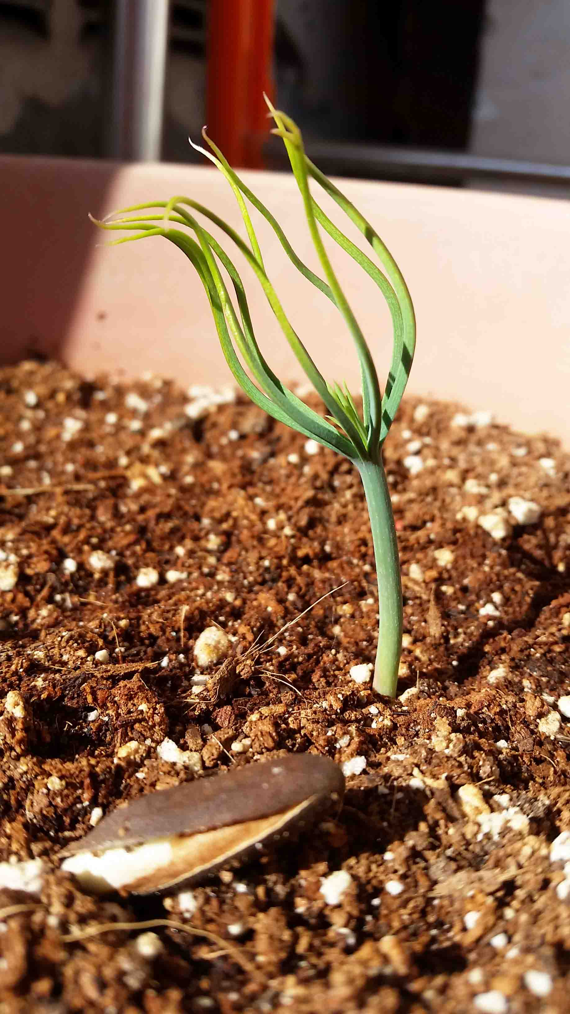 Pinus gerardiana seedling